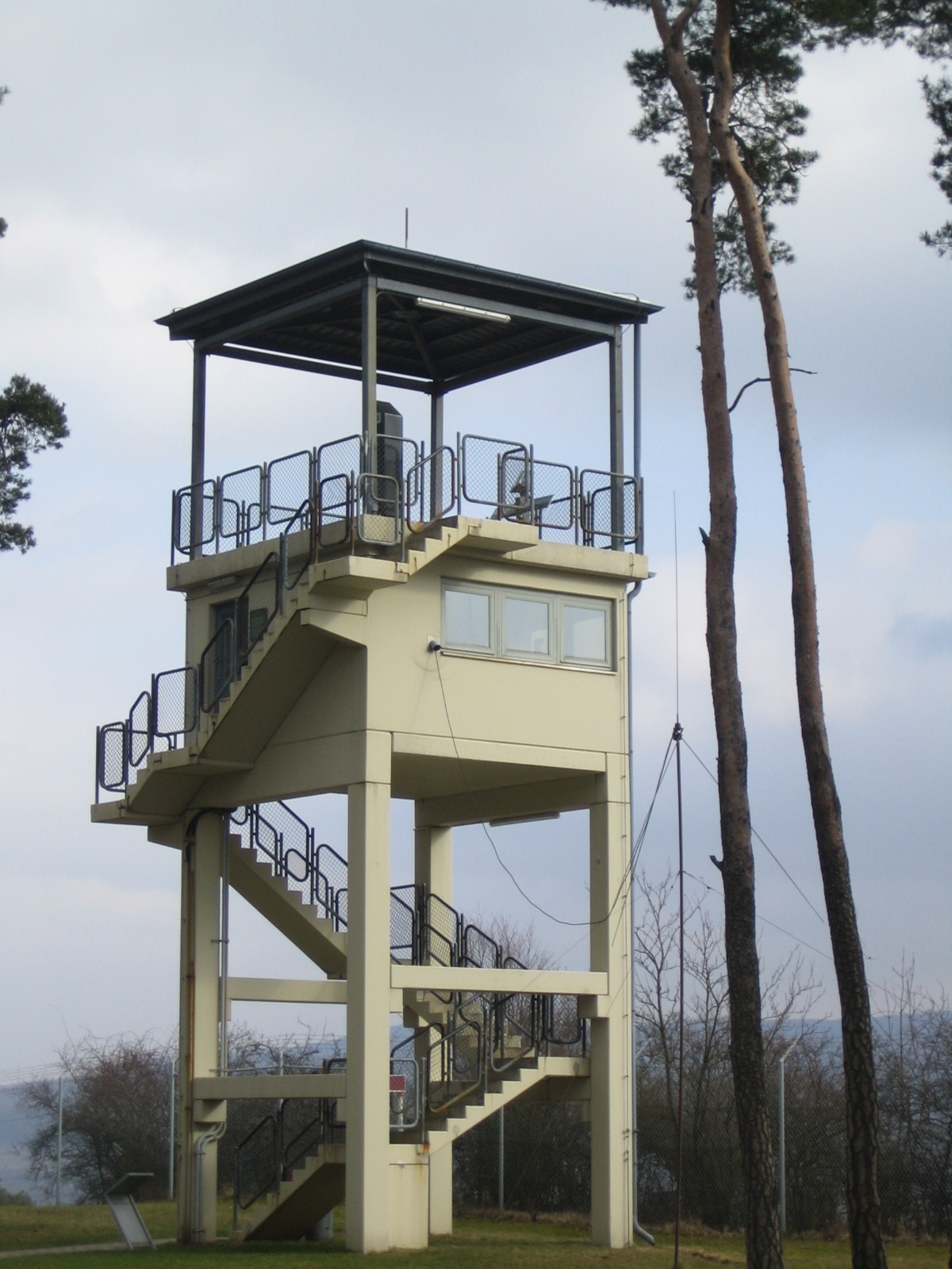 Former watch tower on the Inner German border, now at the museum Point Alpha